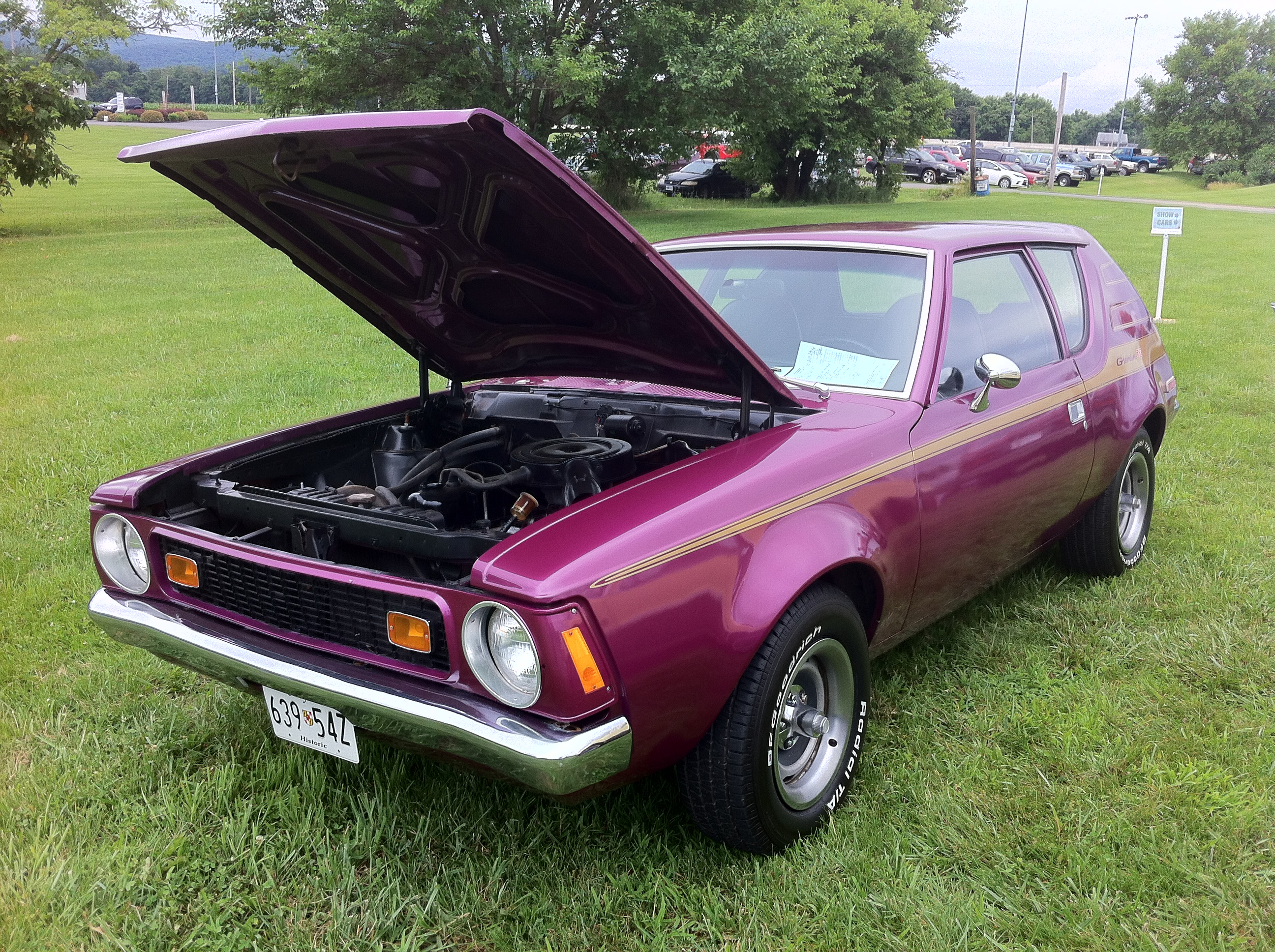 1972 AMC Gremlin X finished in purple. An innovative subcompact in one body style built by American Motors Corporation from the 1970 to 1978 model years. This car equipped with the X trim (sports) package. Picture taken at the 23rd East Coast AMC Day held at the Mason-Dixon Dragway located near Boonsboro, Maryland.